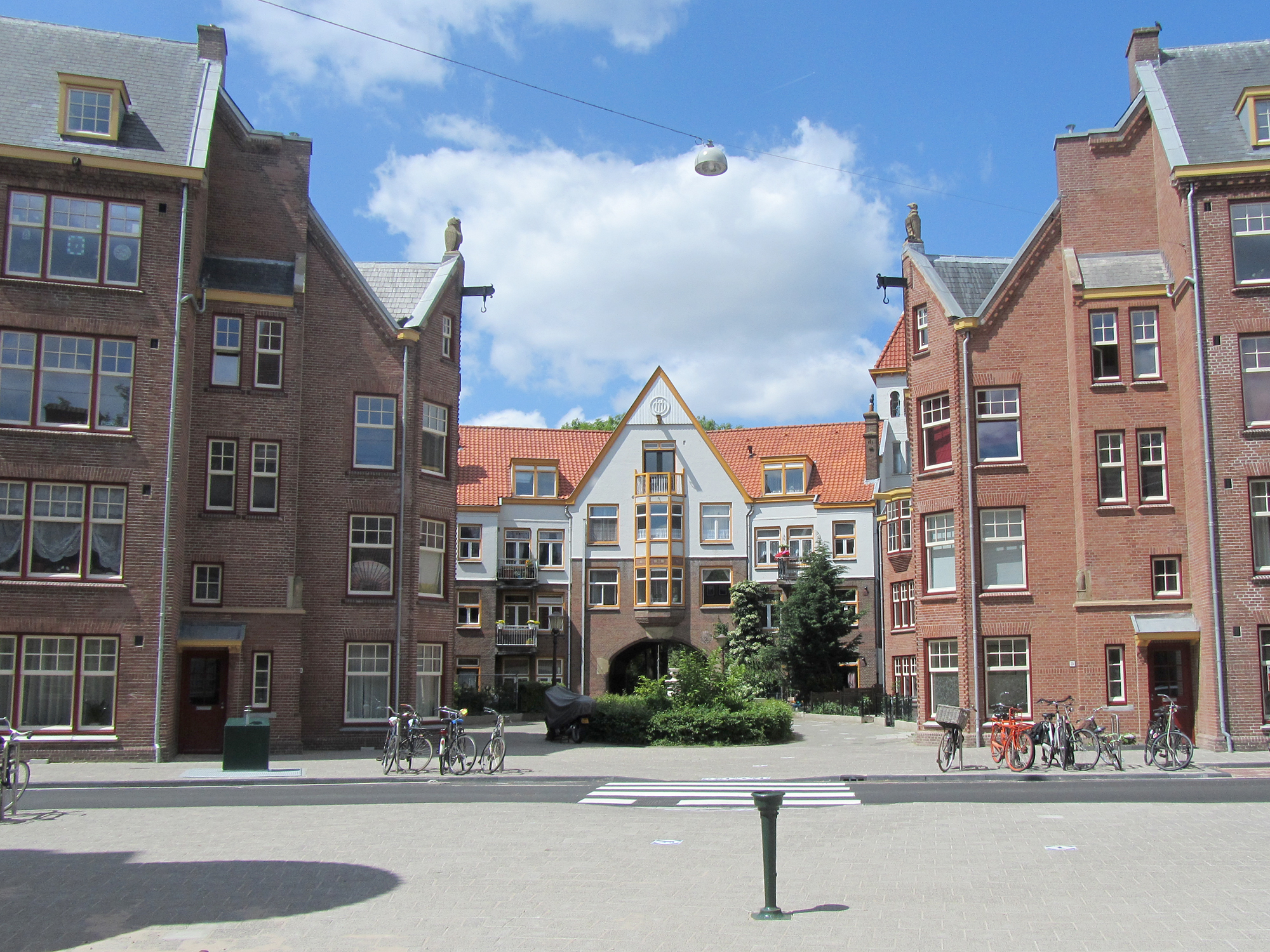 Southern entrance to the Zaanhof, a 1910s residential area designed by Herman Walenkamp